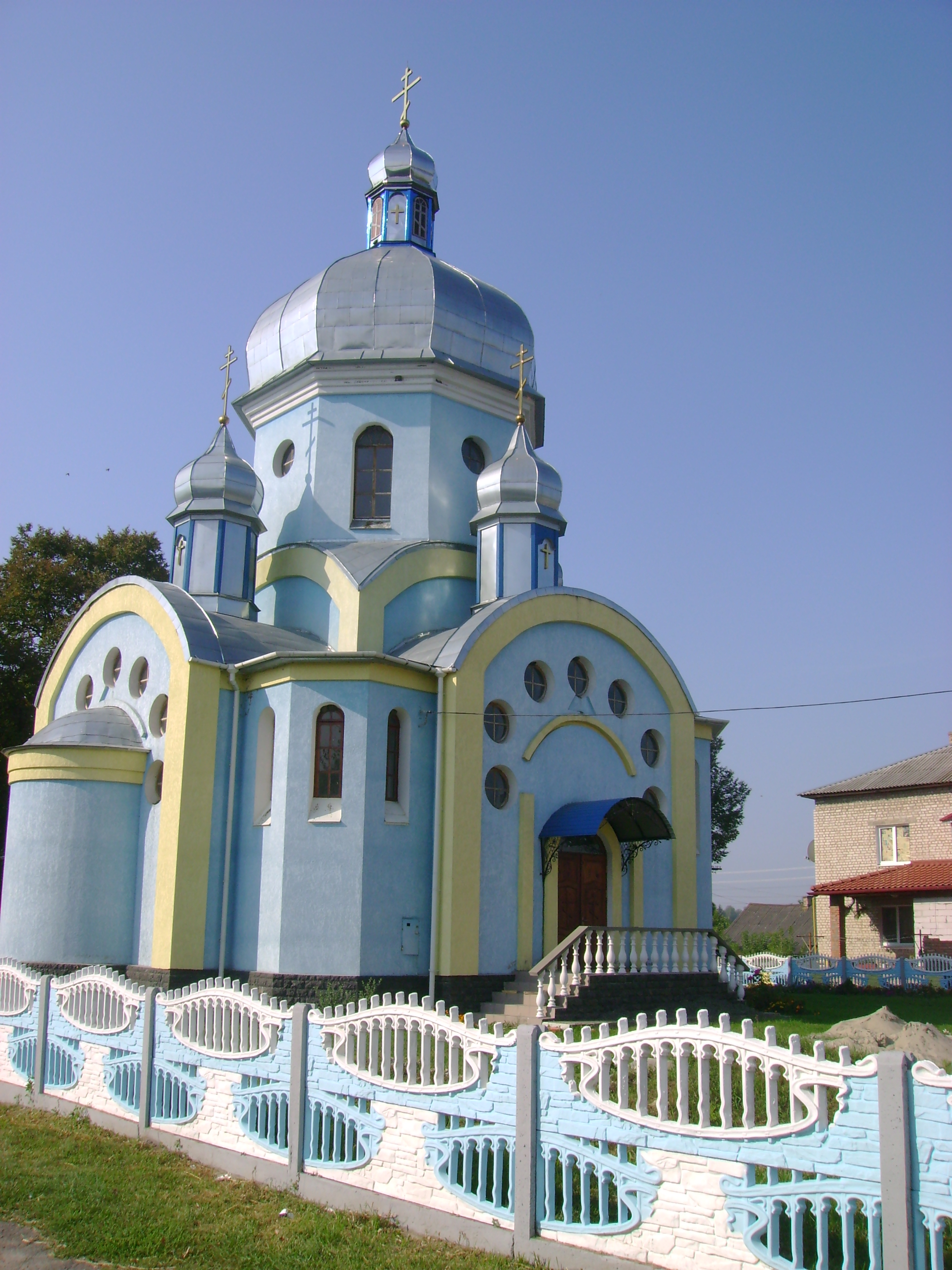 СВЯТО-МИХАЙЛІВСЬКА РЕЛІГІЙНА ГРОМАДА УКРАЇНСЬКОЇ ПРАВОСЛАВНОЇ ЦЕРКВИ КИЇВСЬКОГО ПАТРІАРХАТУ С. ВЕРБА